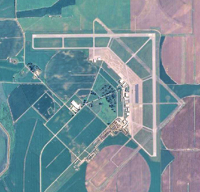 USGS digital orthophoto of Lawrenceville-Vincennes International Airport in Illinois